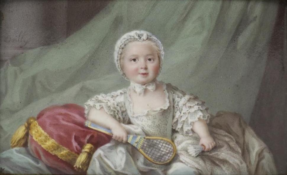 Princess Louise Marie of France (1737–1787), youngest daughter of Louis XV and Marie Leszczyńska.